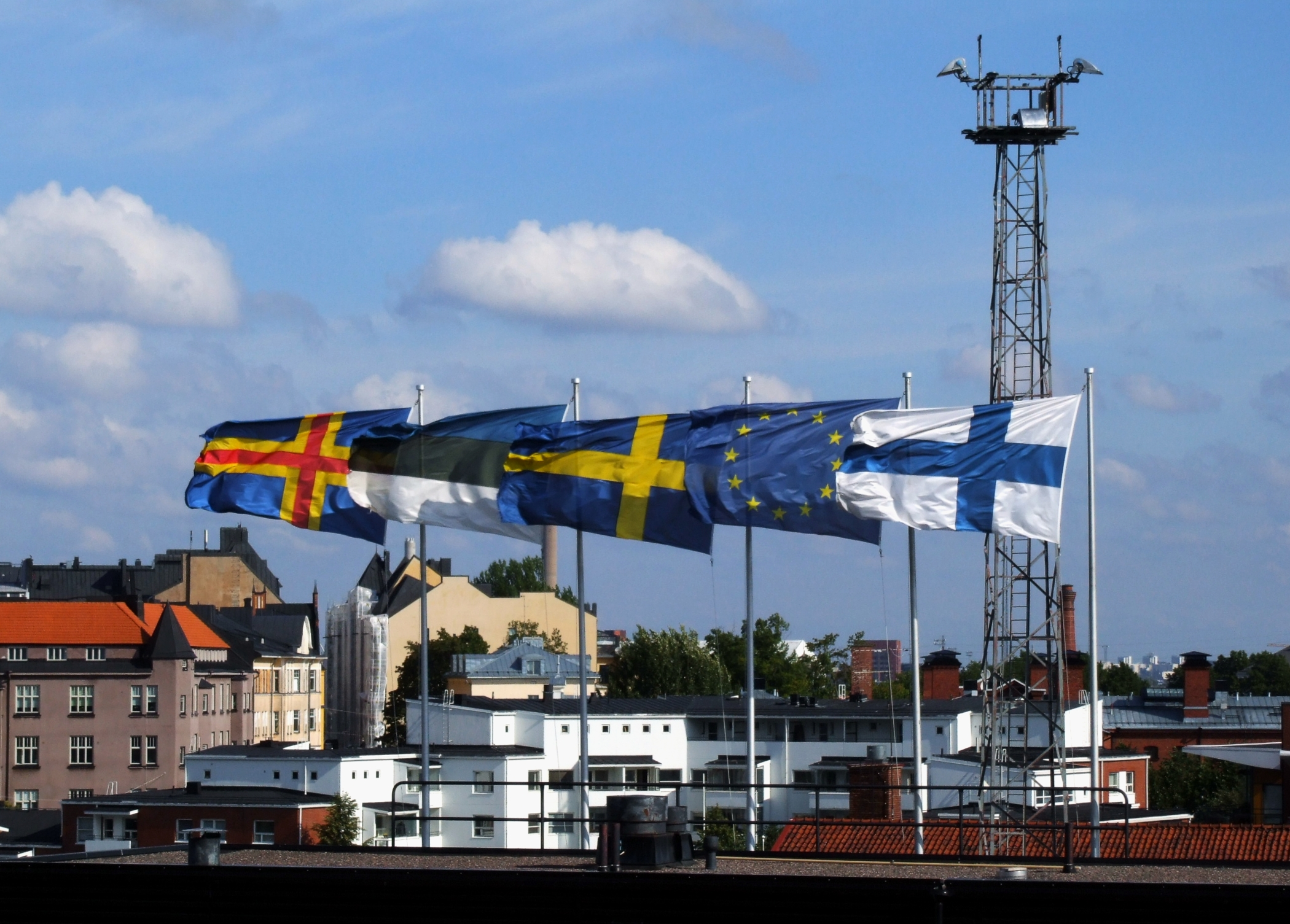 Flags of countries of the Baltic Sea (Åland Islands, Estonia, Sweden, EU, Finland) in Helsinki